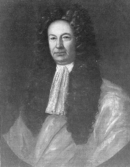 portrait of Charles Carroll the Settler (1661-1720); originally uploaded by Geraldk